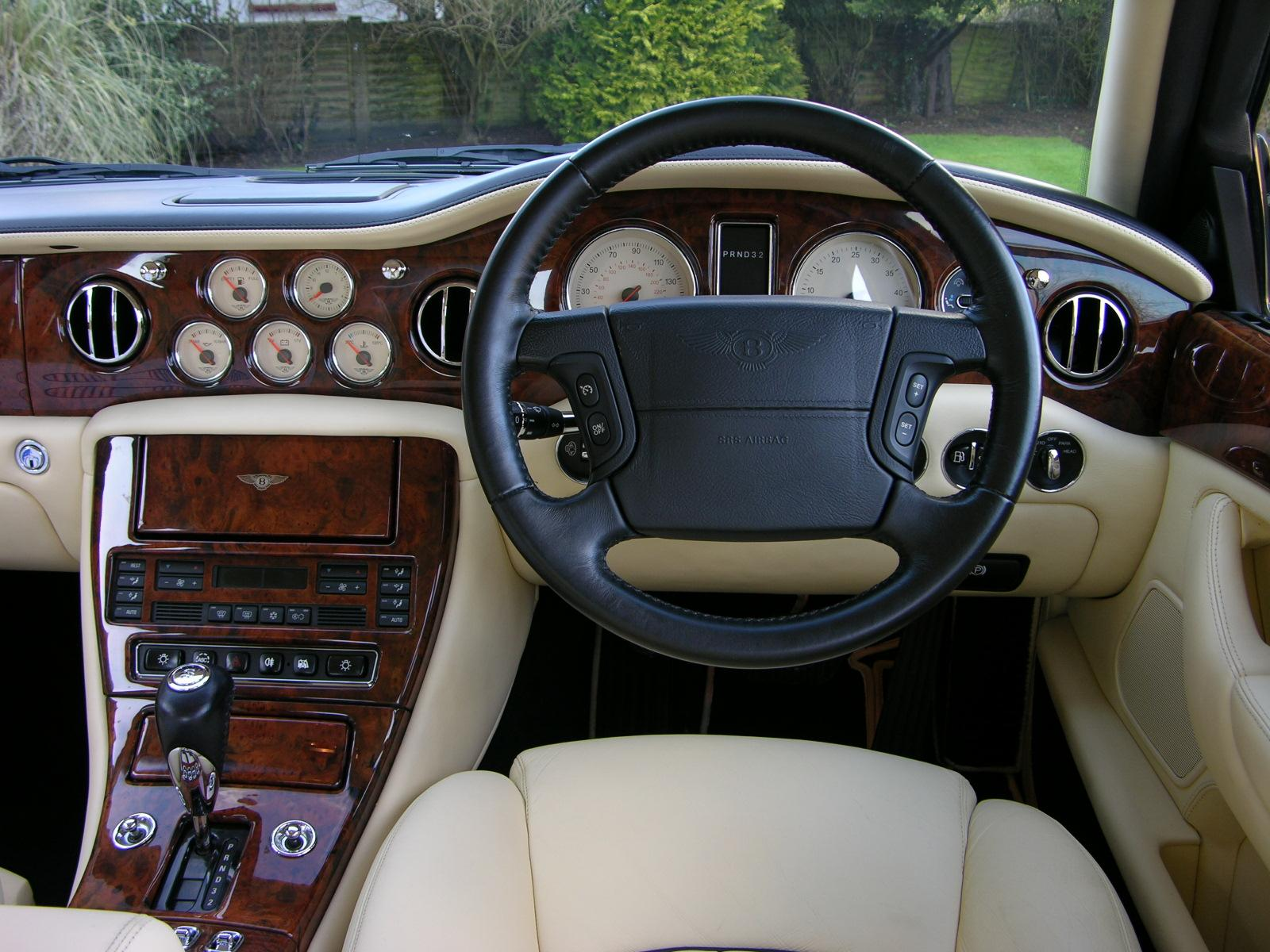 2001 Bentley Arnage Red Label